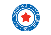 dr